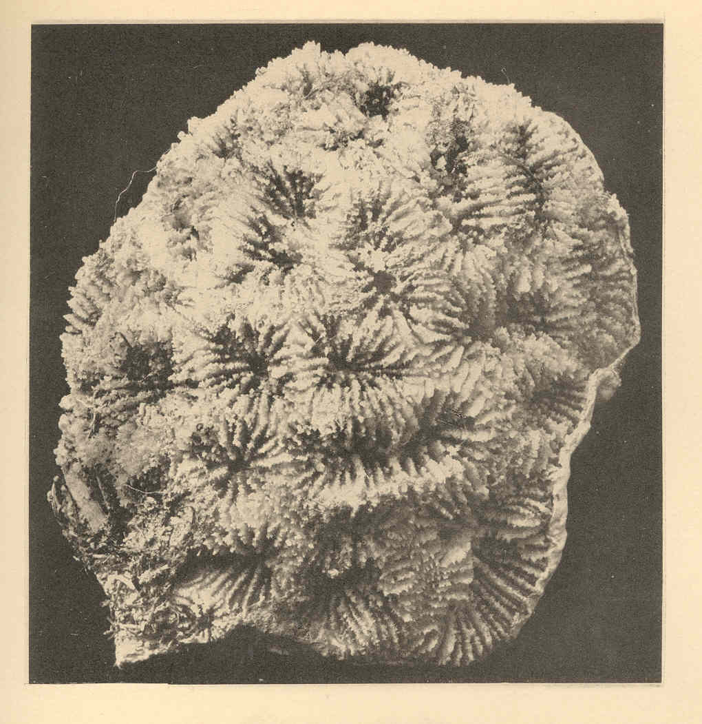 Favia fragum (Esper). View from above.. . Subject: Corals, Favia fragum Tag: Invertebrates